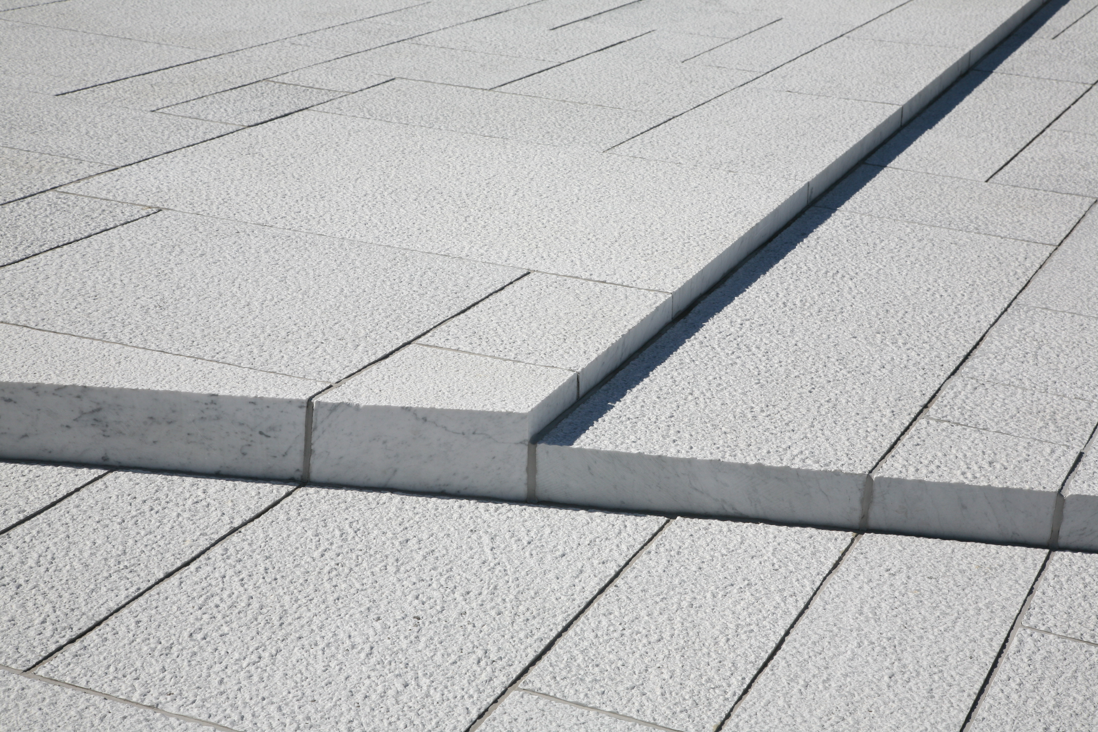 From the top of the roof of the new opera house in Bjørvika Oslo. Picture taken during "open roof day" August 26. 2007. The design of the marble roof is by Jorunn Sannes, Kalle Grude and Kristian Blystad